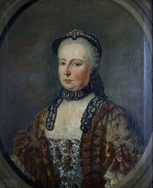 Portrait of Maria Theresa (1717-1780)